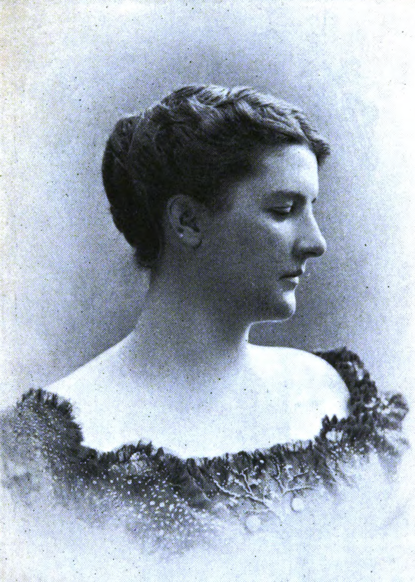 Author Elizabeth Garver Jordan, taken from Google Books scan of Tales of the cloister, Volume 4, Harper & Brothers, 1901